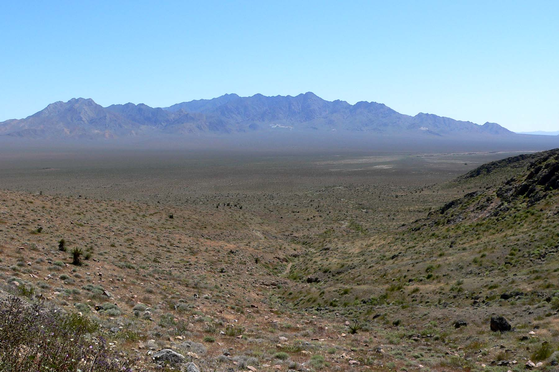 Looking southeast from Emigrant Pass in the Nopah Range, across California Valley, towards Kingston Range, Mojave Desert, California